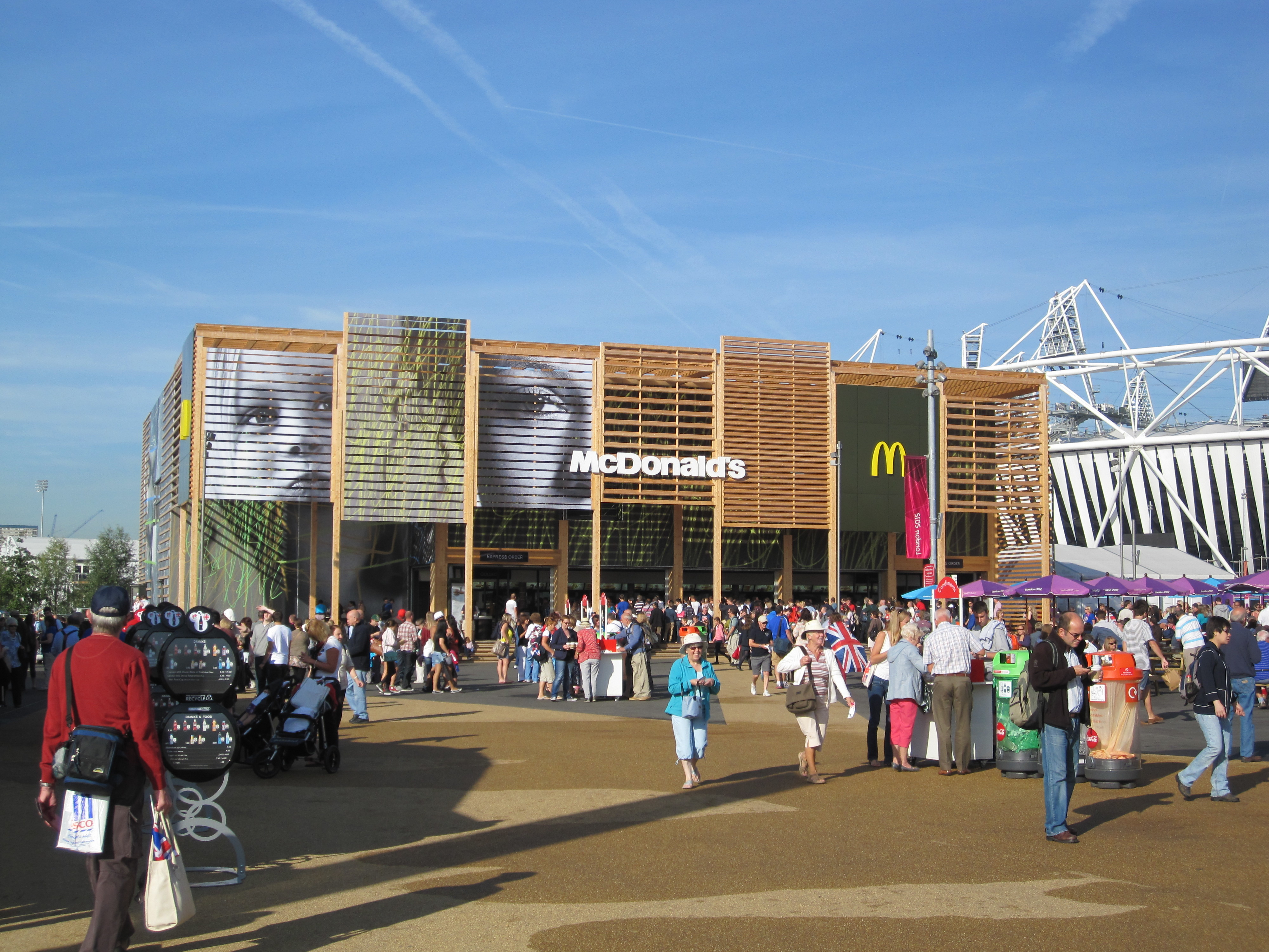 A lot of controversy has surrounded around McDonalds being a key sponsor for the Olympics and Paralympics. Needless to say their presence at the Olympic Park does not go unnoticed. Taken around 09:15 before any of the Paralympic events started, queues at this one (close to the main stadium) were 10+ long at each serving position.